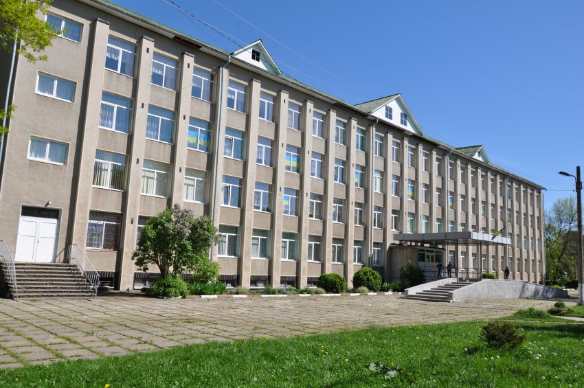 School of general education №7